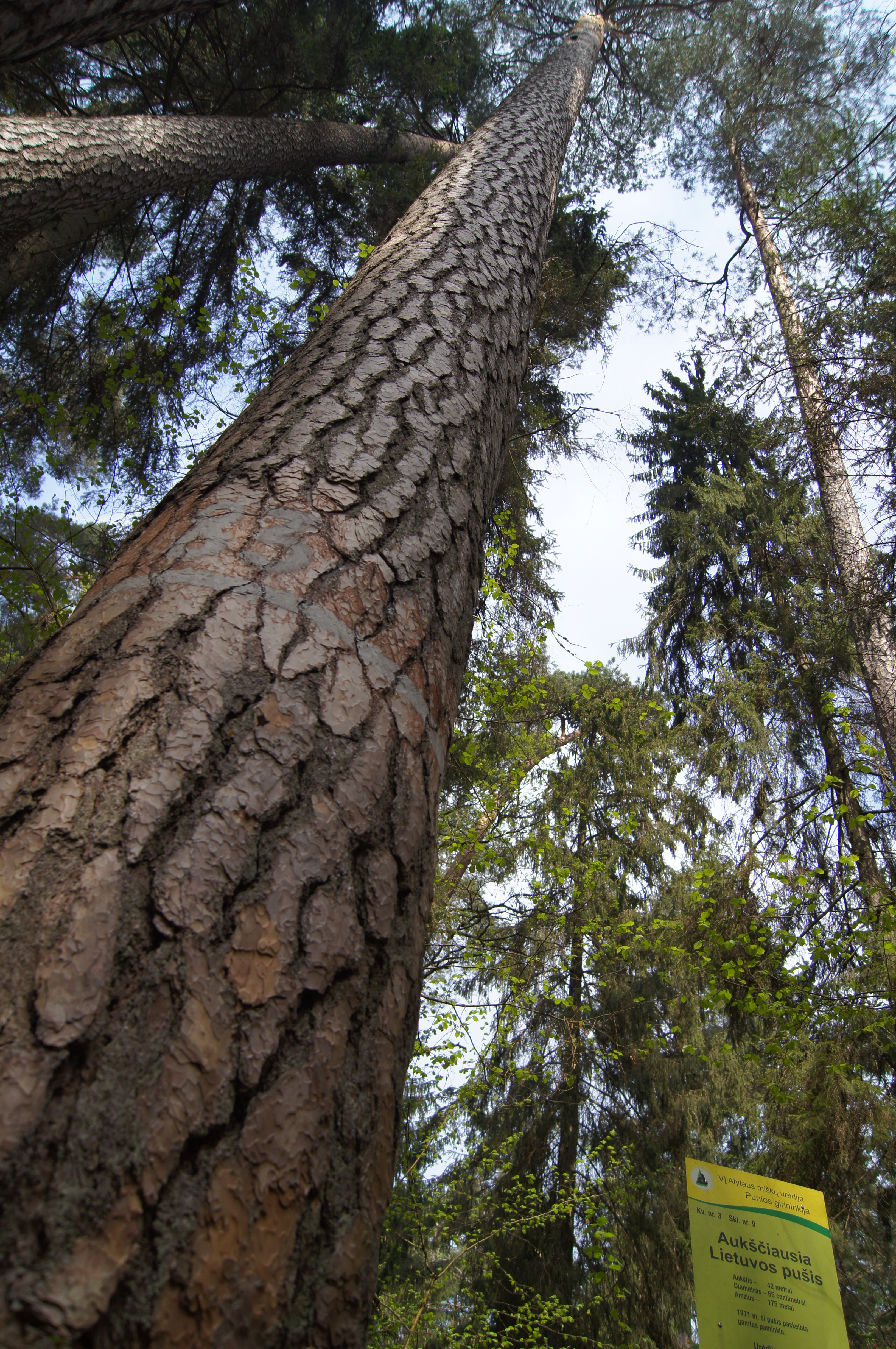 Highest Lithuania pine tree